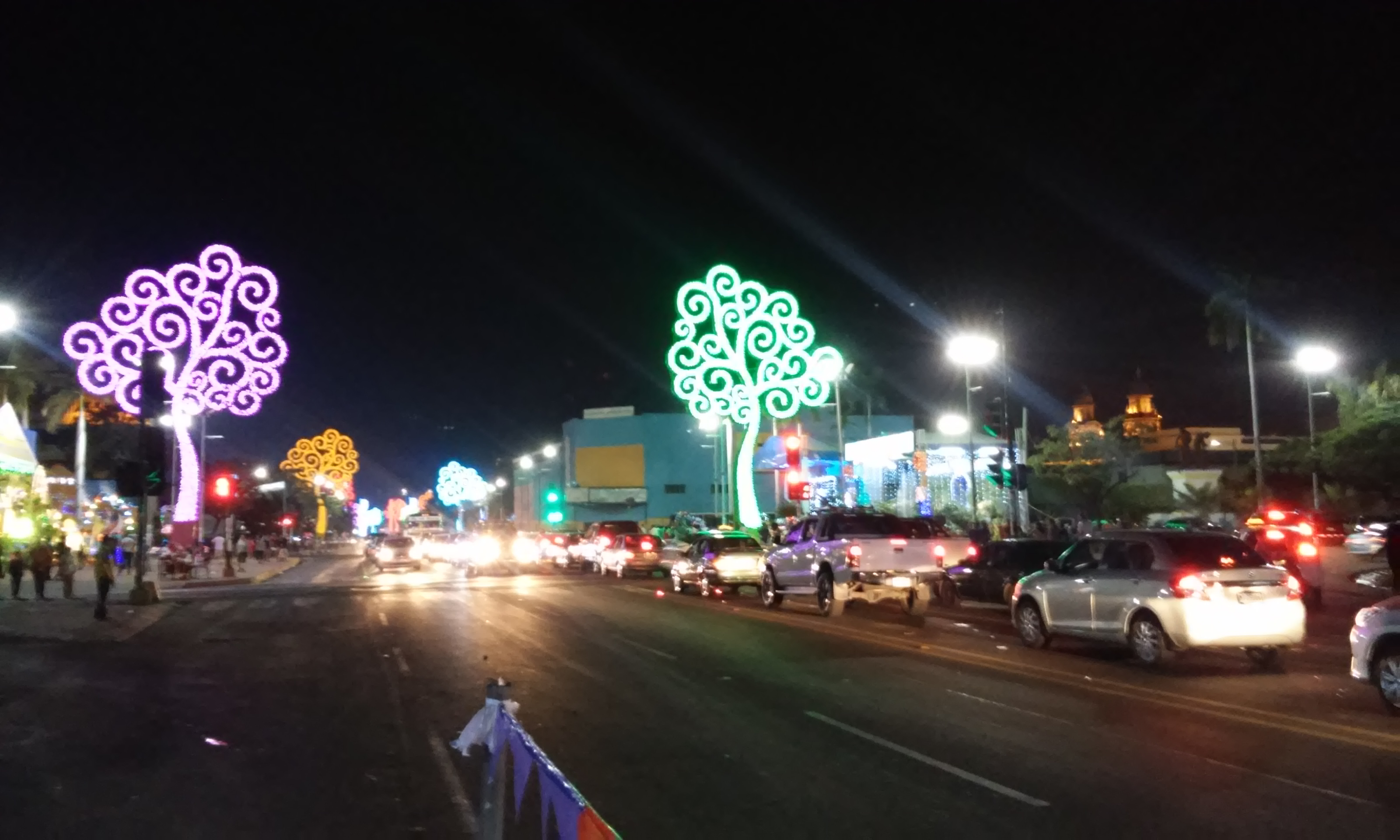 Avenida Bolivar of Managua in December 2016